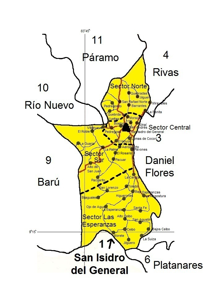 San Isidro del General´s map